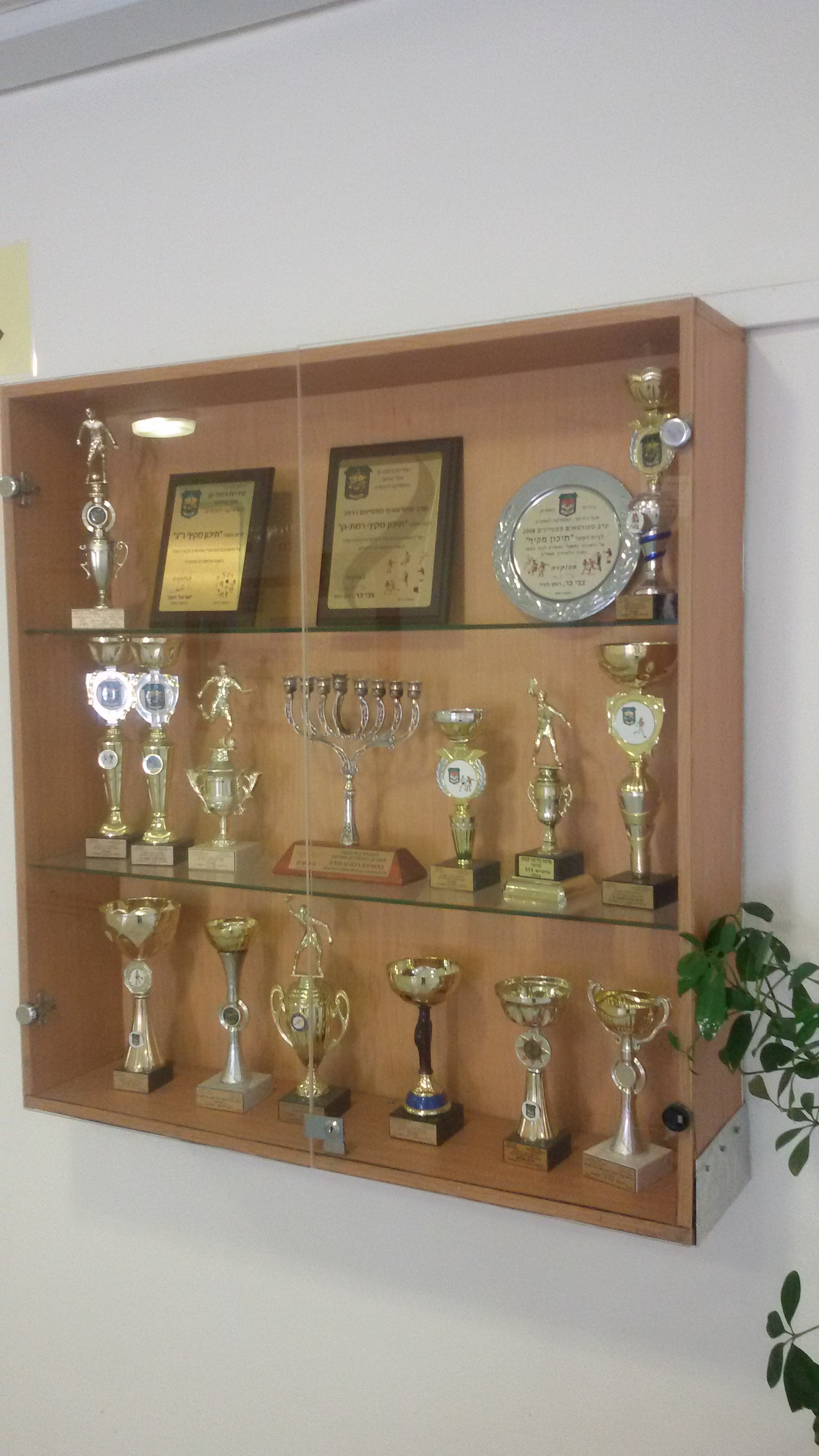 מקיף רמת גן